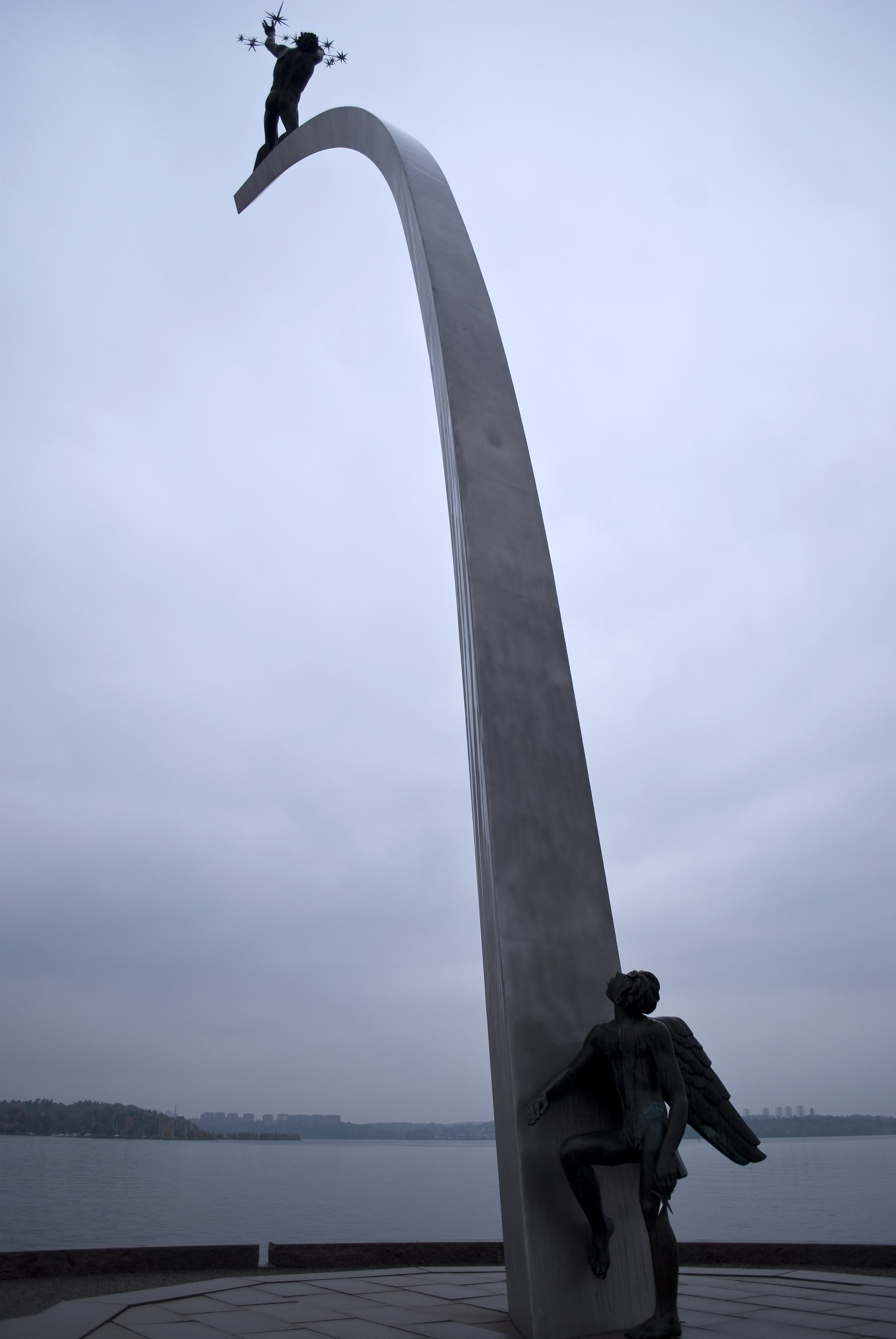 God, our Father, on the Rainbow an approx. 23 meter high sculpture by Carl Milles. Nacka Strand, Stockholm.